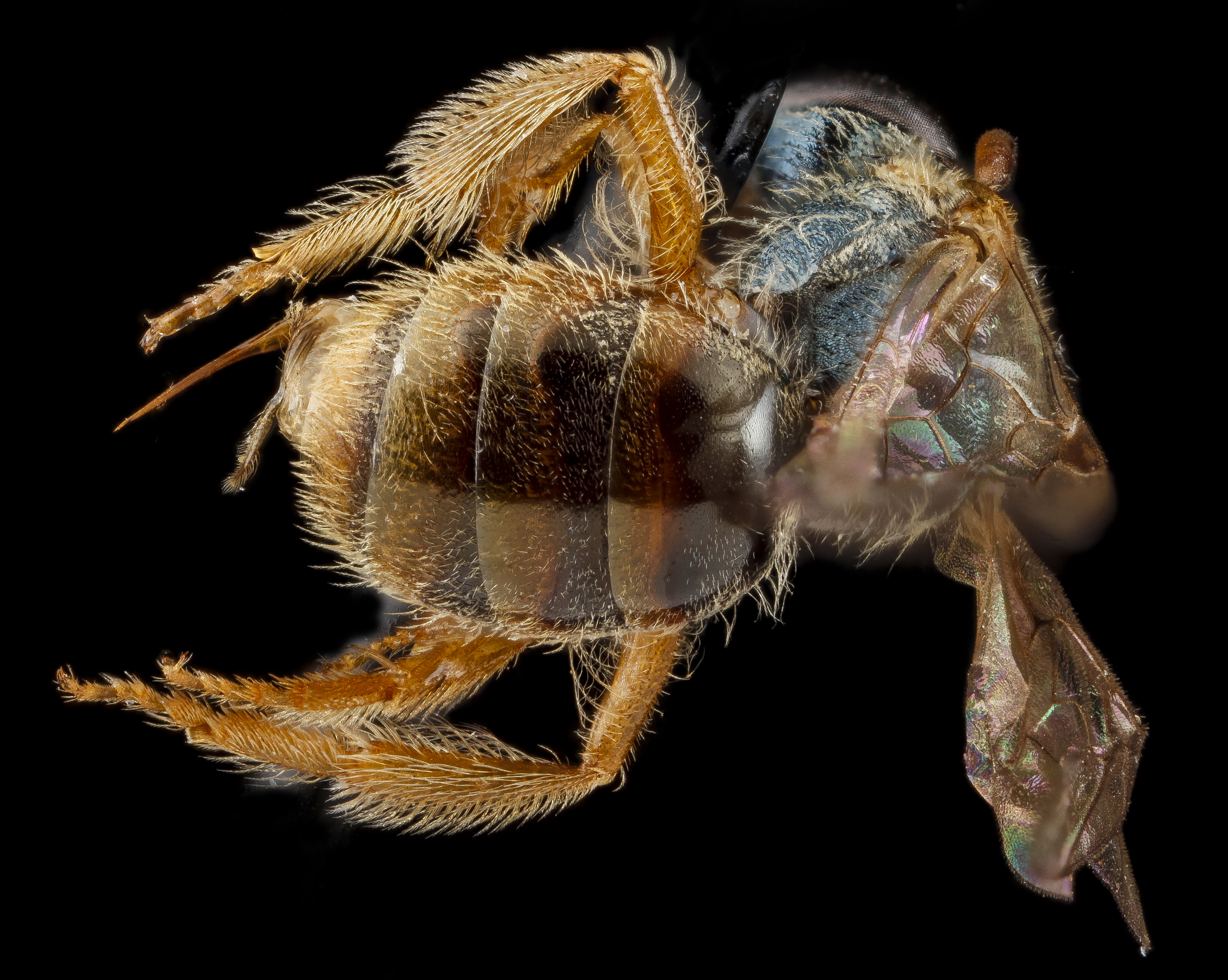 Nacogodoches County, texas, Big Thicket National Preserve